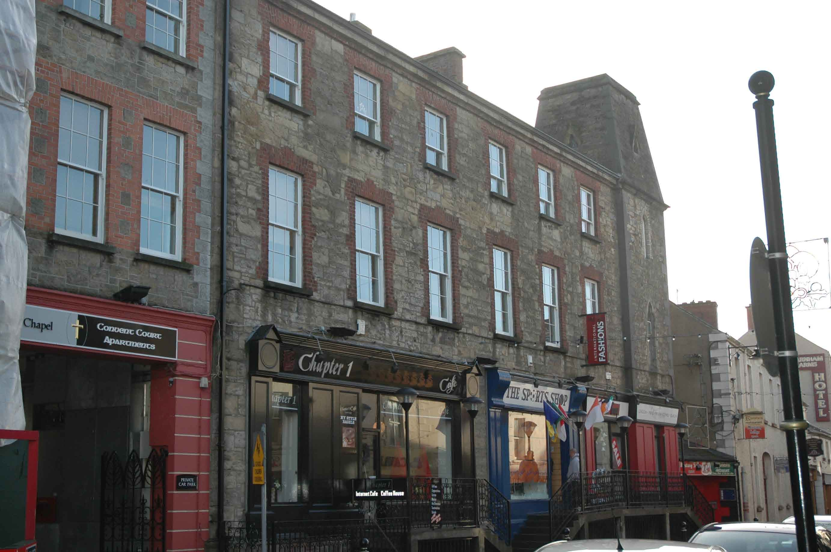 Current View of Cavan Orphanage Building